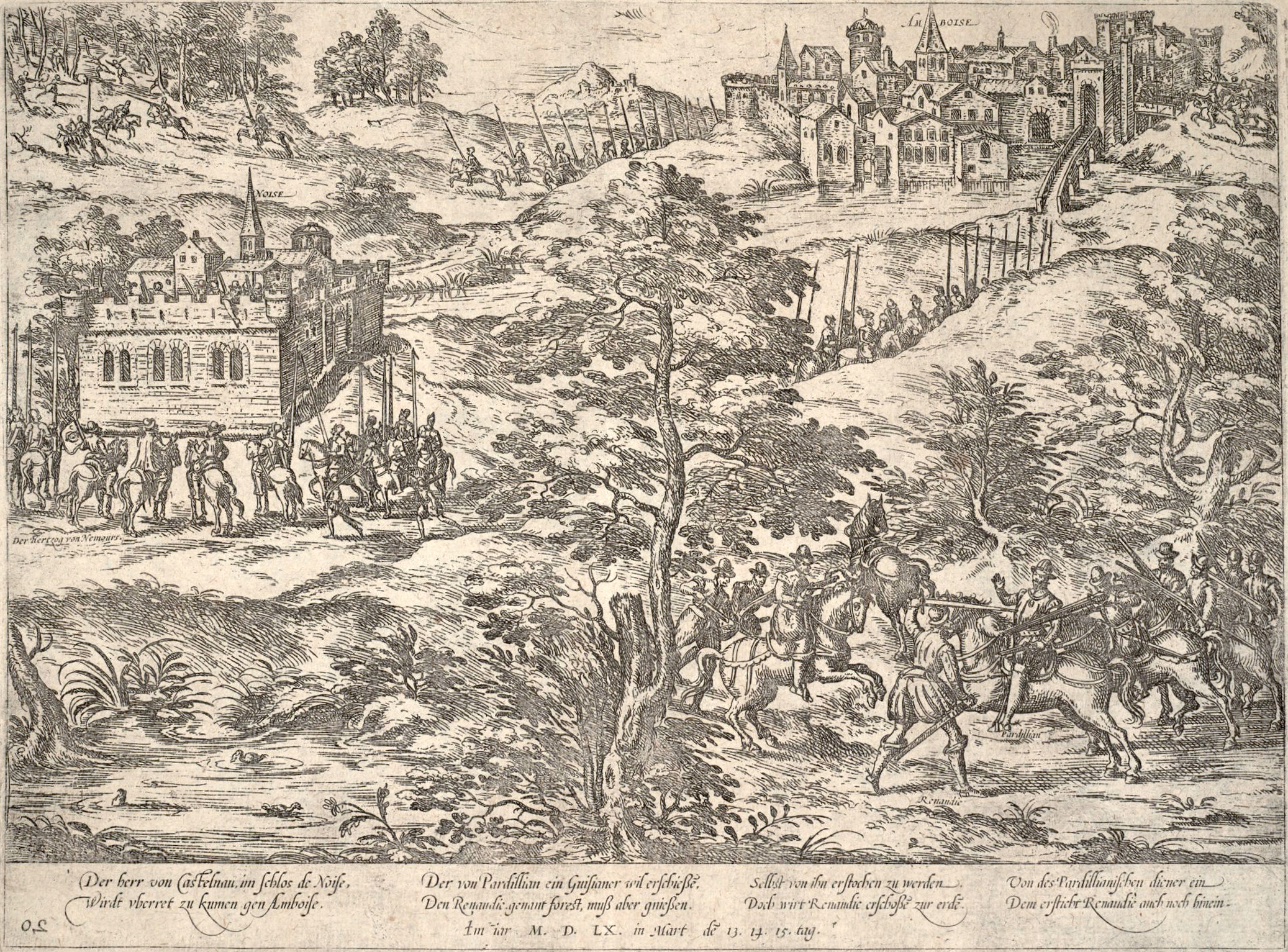 The conjuration of Amboise, engraving after Tortorel et Perrissin, musée national du château de Pau